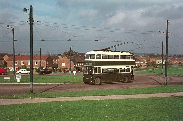 British trolleybuses - Derby. In the post-war years, Derby extended its trolleybus network into the new Mackworth Estate to the northwest of the city centre. The route terminated here at Morden Green. There has been some tree planting since this picture was taken but otherwise little has changed. See this slide show of British trolleybuses in the late 1960s.